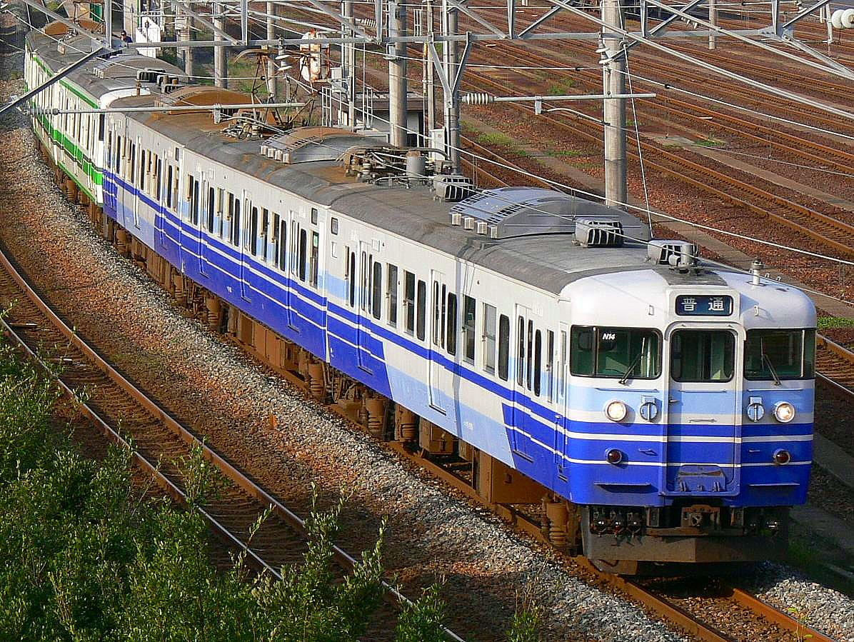 JR East 115 series EMU on the Hakushin Line in Niigata Prefecture, Japan